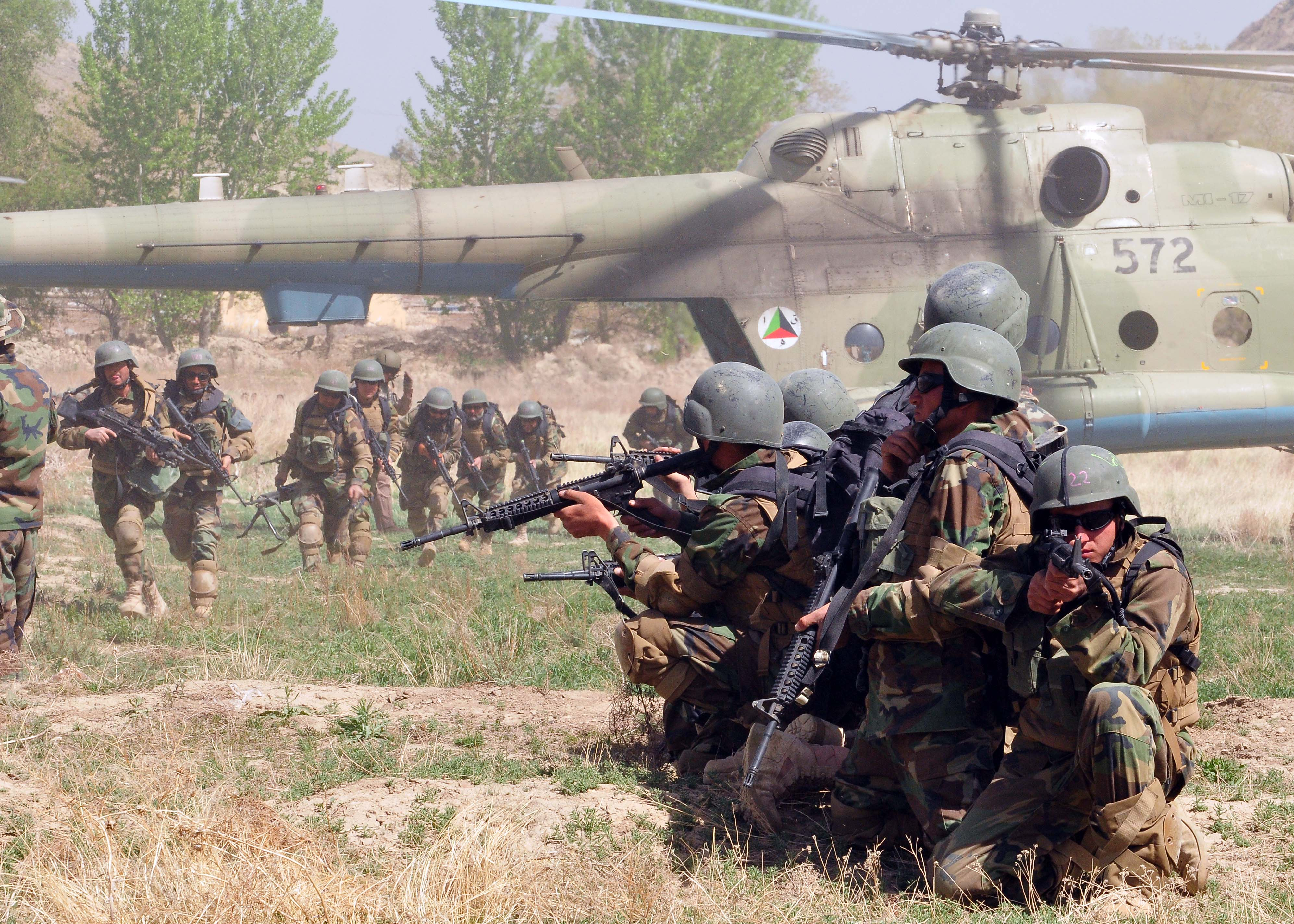 Afghan Commandos from the Sixth Commando Kandak practice infiltration techniques using the Afghan National Army Air Corps Mi-17 helicopter on April 1, 2010 at Camp Morehead in the outer regions of Kabul. The training was in preparation for future air assault missions needed in order to disrupt insurgent activity and bring stability to the population and the region. 100402-N-6031Q-009